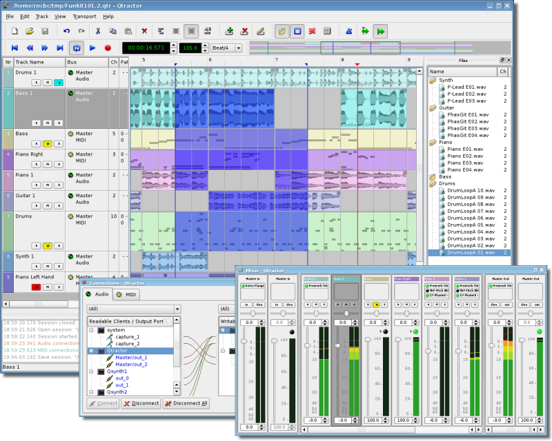 Screen-shot of the Qtractor audio workstation software.